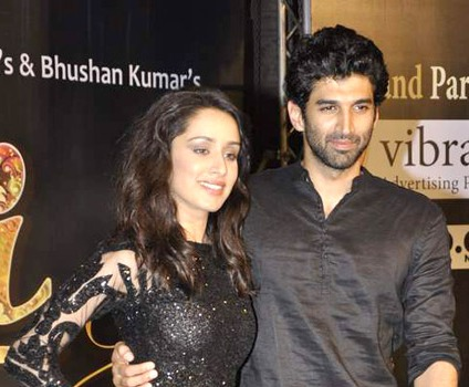 Shraddha Kapoor at Live concert of Aashiqui 2